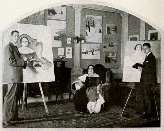 Russian born opera singer Nina Koshetz with (left) her husband Alexander de Shubert and (right) Japanese artist Toyohari Yamanouchi, on page 60 of the December 1922 Shadowland.